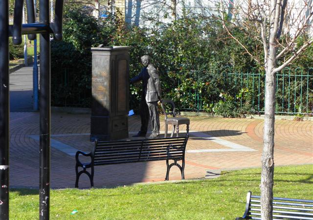 C S Lewis statue, Belfast Pictured looking into a wardrobe near the Upper Newtownards Road